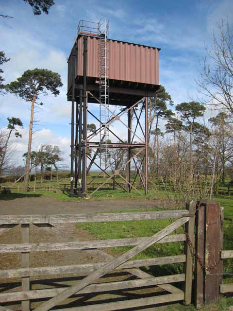 Water tower on Currock Hill At 250 metres, the highest point on the ridge separating the Derwent valley from Tynedale.